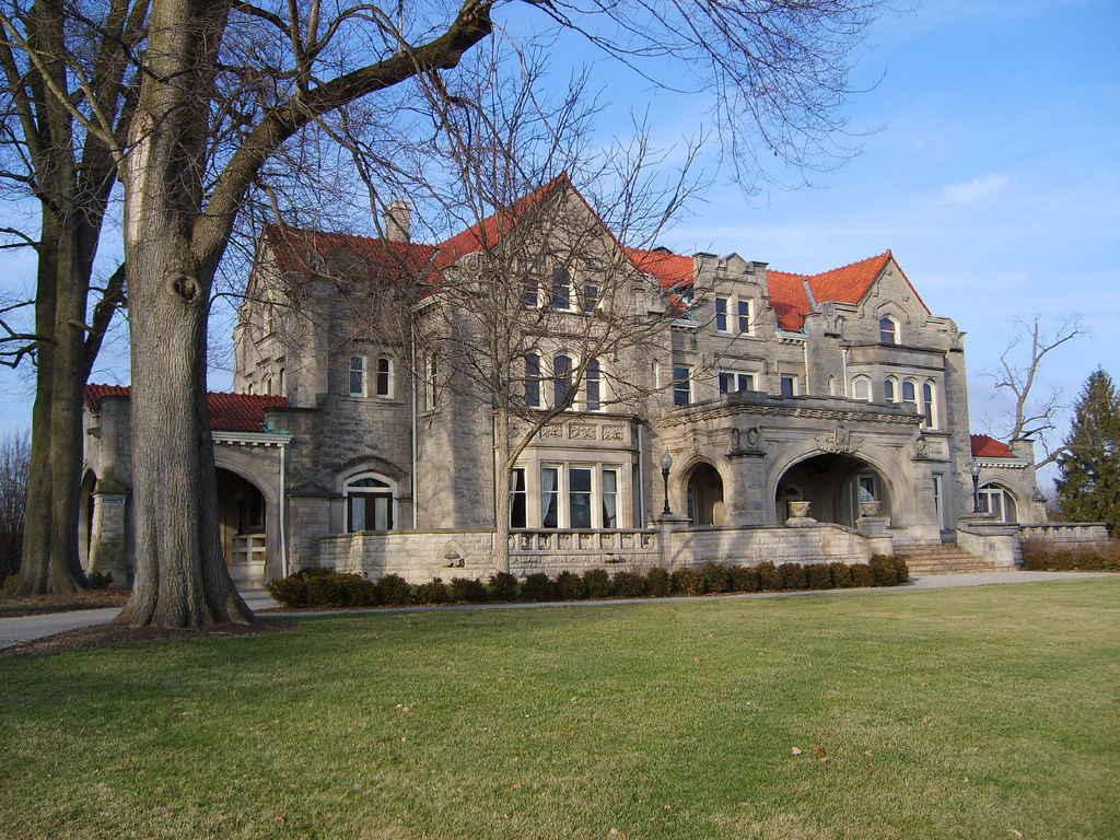 Elizabeth Ball Center, located at the Minnetrista Cultural Center in Muncie, Indiana.